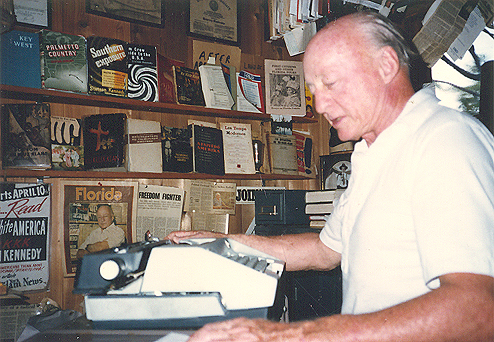 Stetson Kennedy, American author and human rights activist